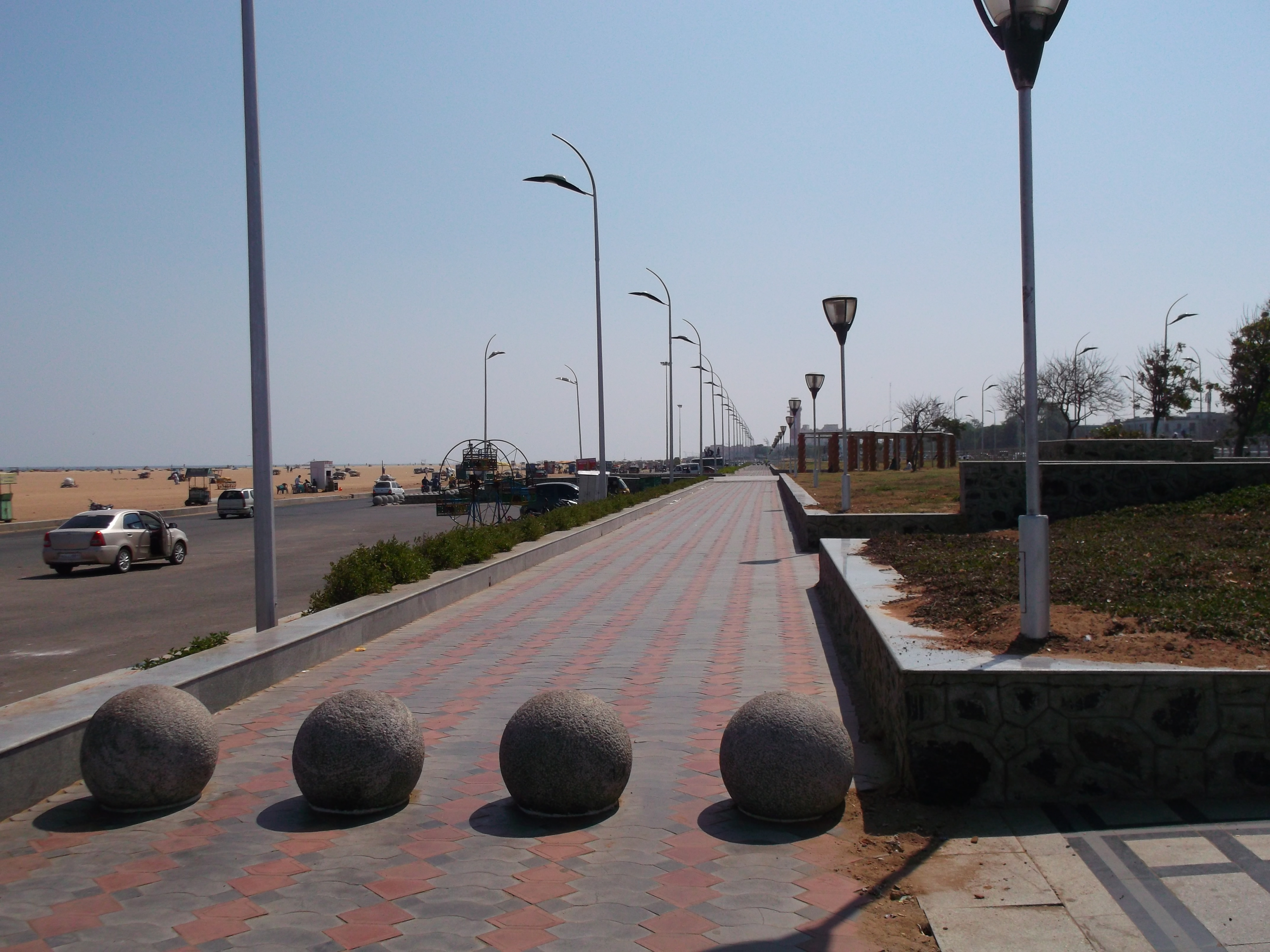 Promenade at Marina Beach, towards Lighthouse, taken on 2-Feb-2013, at 3:00 pm